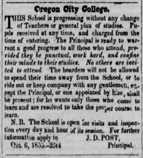 Advertisement for Oregon City College published in the Oregon Argus newspaper on 13 October 1855